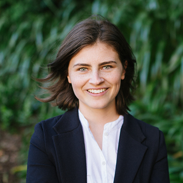 Photograph of Green Party of Aotearoa New Zealand MP Chlöe Swarbrick